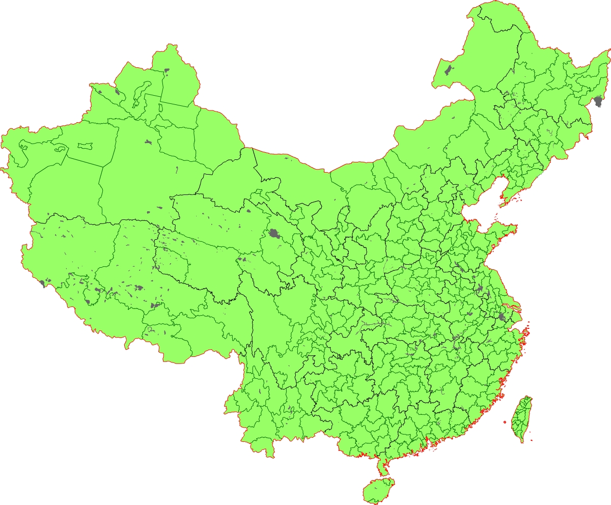 Detailed map of Prefecture-level administrative divisions within the People's Republic of China, including Taiwan